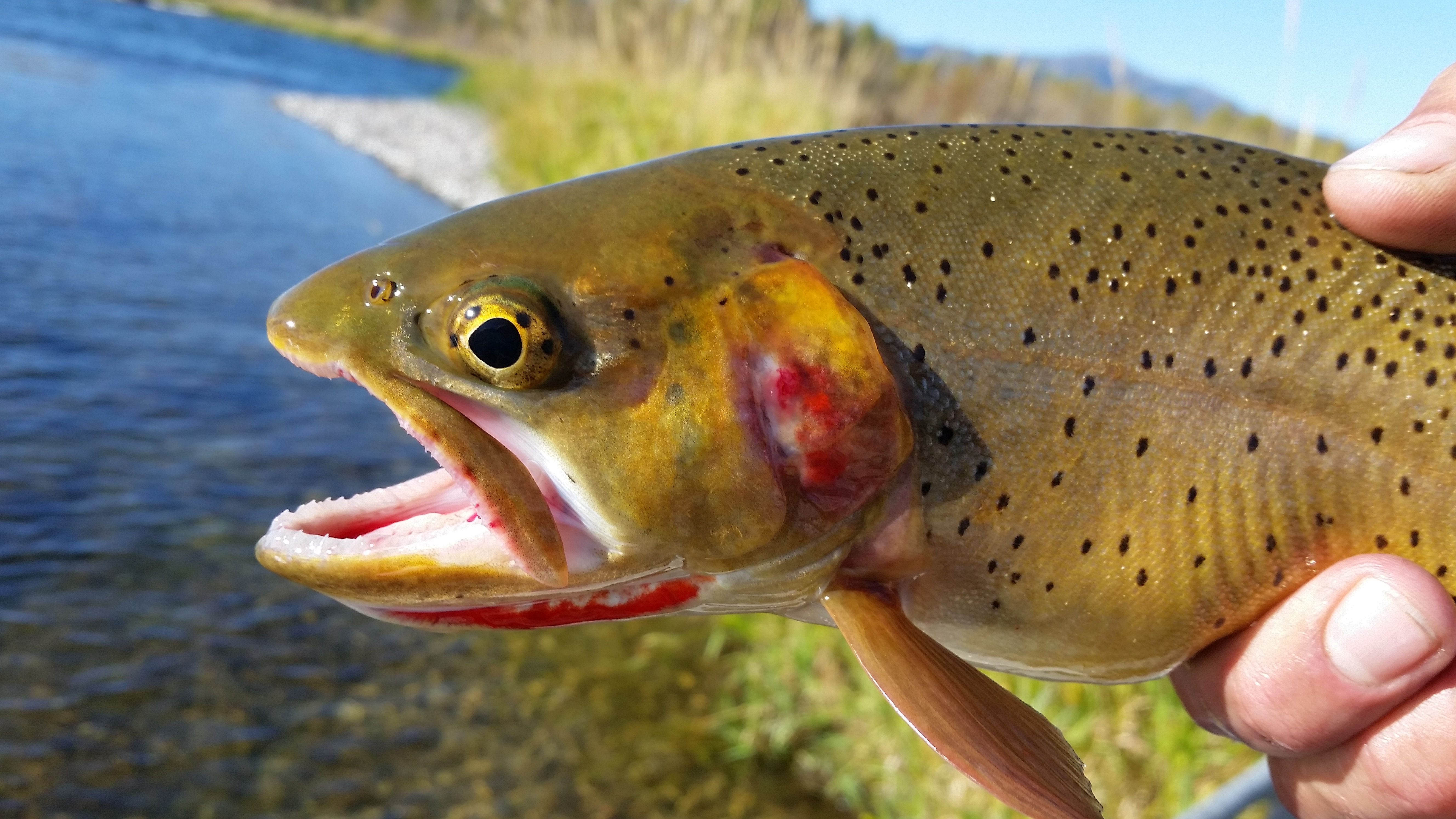 This is a Yellowstone cutthroat trout caught in the Snake river in Idaho.